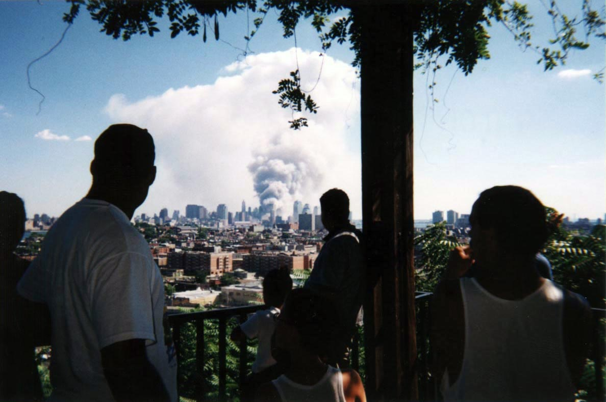 Onlookers viewing the immediate aftermath of the 9/11 Attacks in Manhattan on September 11, 2001, in Doric Park in Union City, New Jersey. The buildings of Hoboken are visible between the background of Manhattan and the foreground of the Park. Doric Park was later turned into Firefighter's Memorial Park, which opened on August 8, 2009. This photo was created by Luigi Novi. It is not in the public domain, and use of this file outside of the licensing terms is a copyright violation.